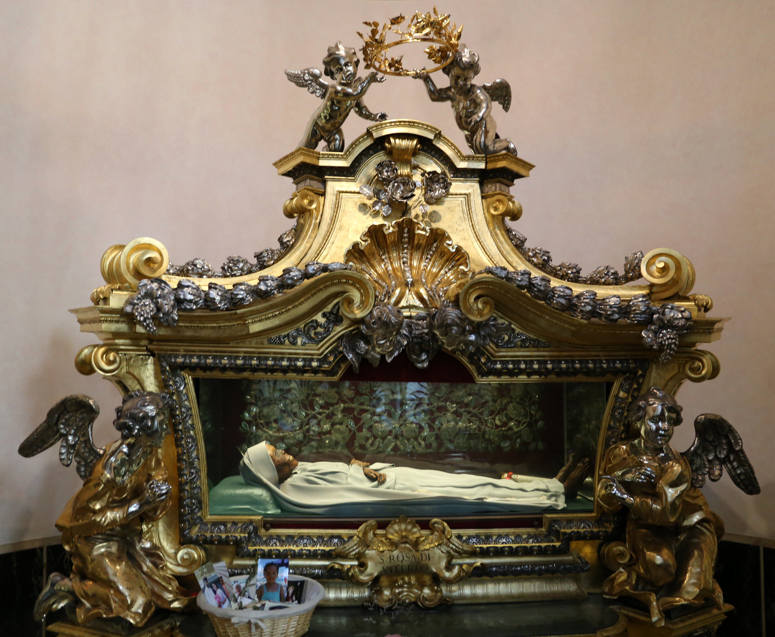 Santa Rosa (Viterbo)